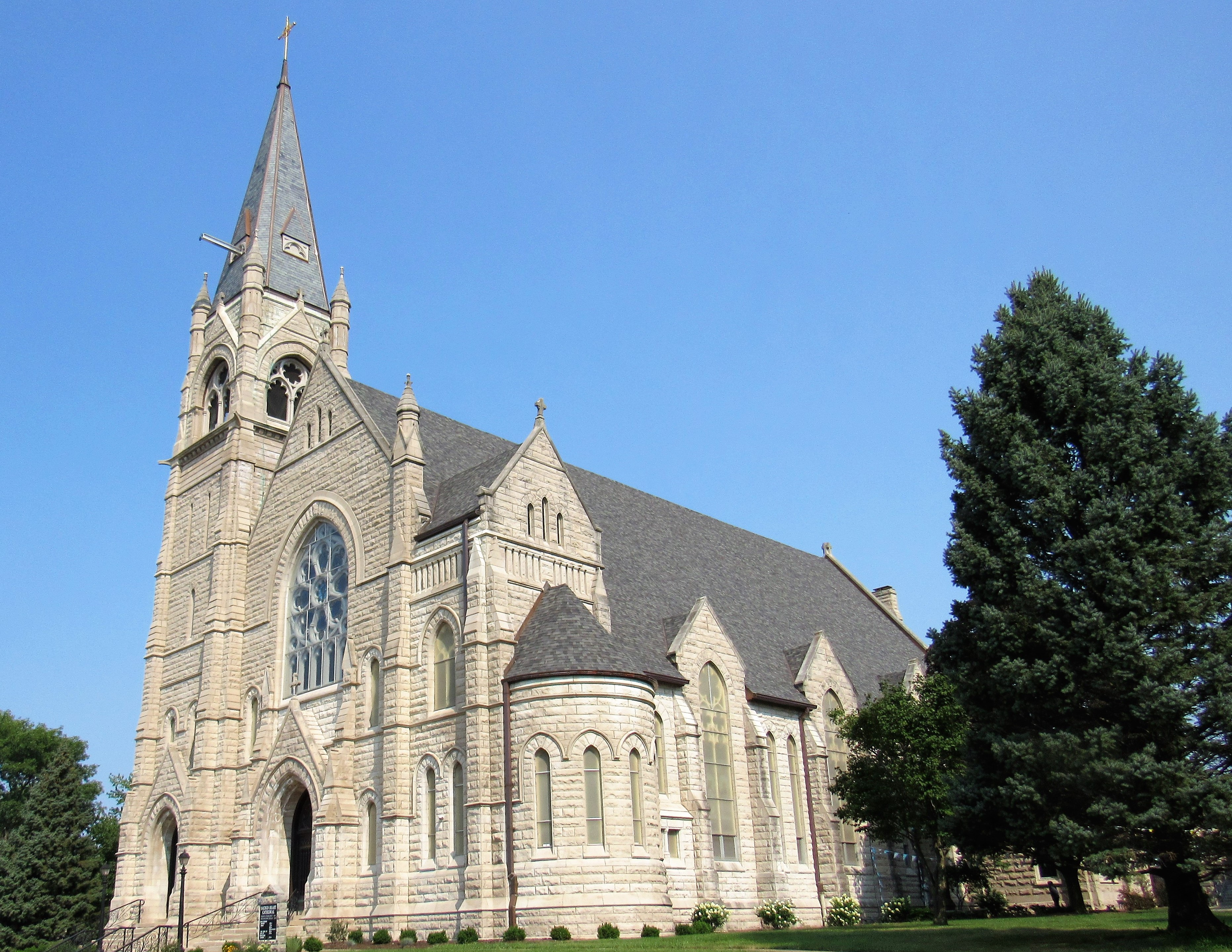 Sacred Heart Cathedral in Davenport, Iowa is listed on the National Register of Historic Places.